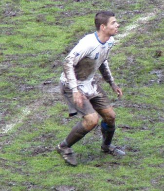 Zoltán Tóth (b. 1983) Hungarian footballer in ZTE Arena.